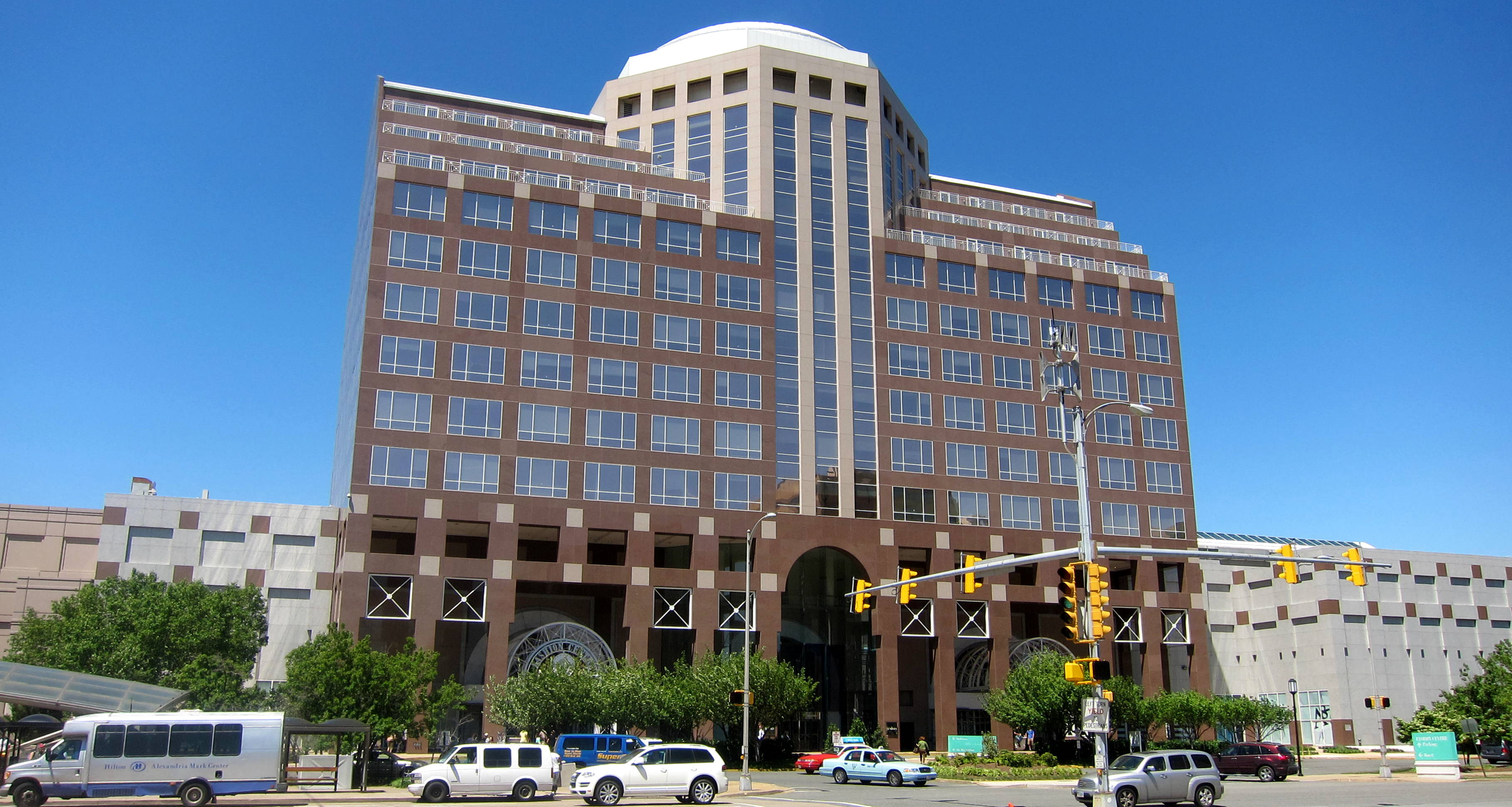 Washington Tower, also known as the Pentagon City Tower, in the Pentagon City neighborhood of Arlington County, Virginia. The 12-story, postmodern office building was designed by the architectural firm of RTKL Associates. Washington Tower is located at 1200 South Hayes Street, above the Fashion Centre at Pentagon City.